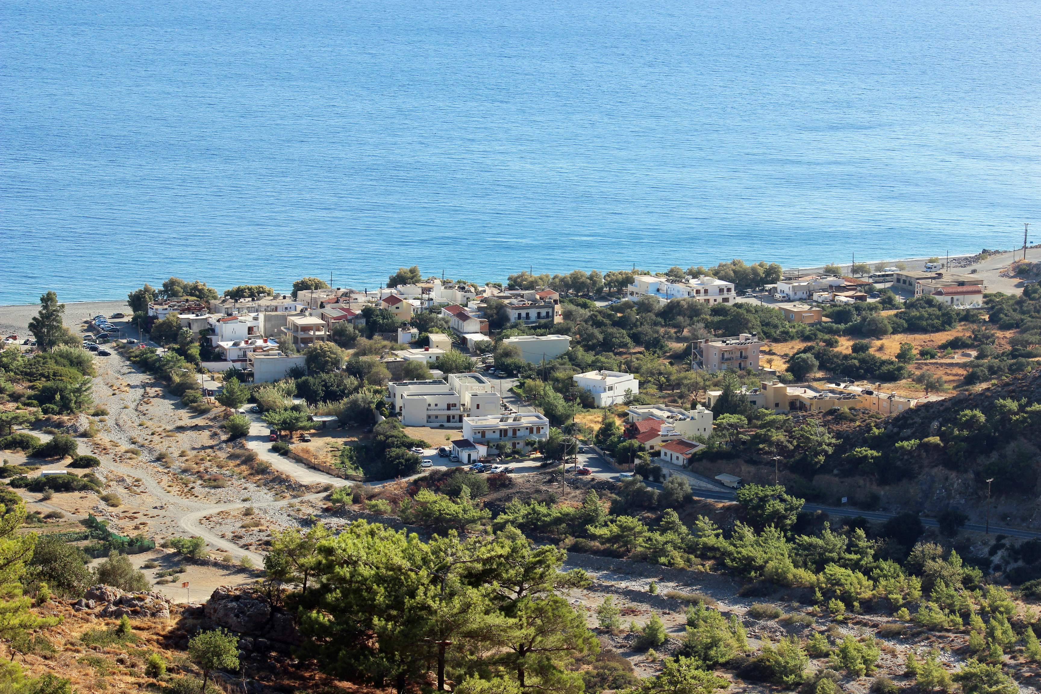 Distant view of Soúgia, a village in the municipalitie Anatoliko Selino, in the southwestern part of the island of Crete, Greece